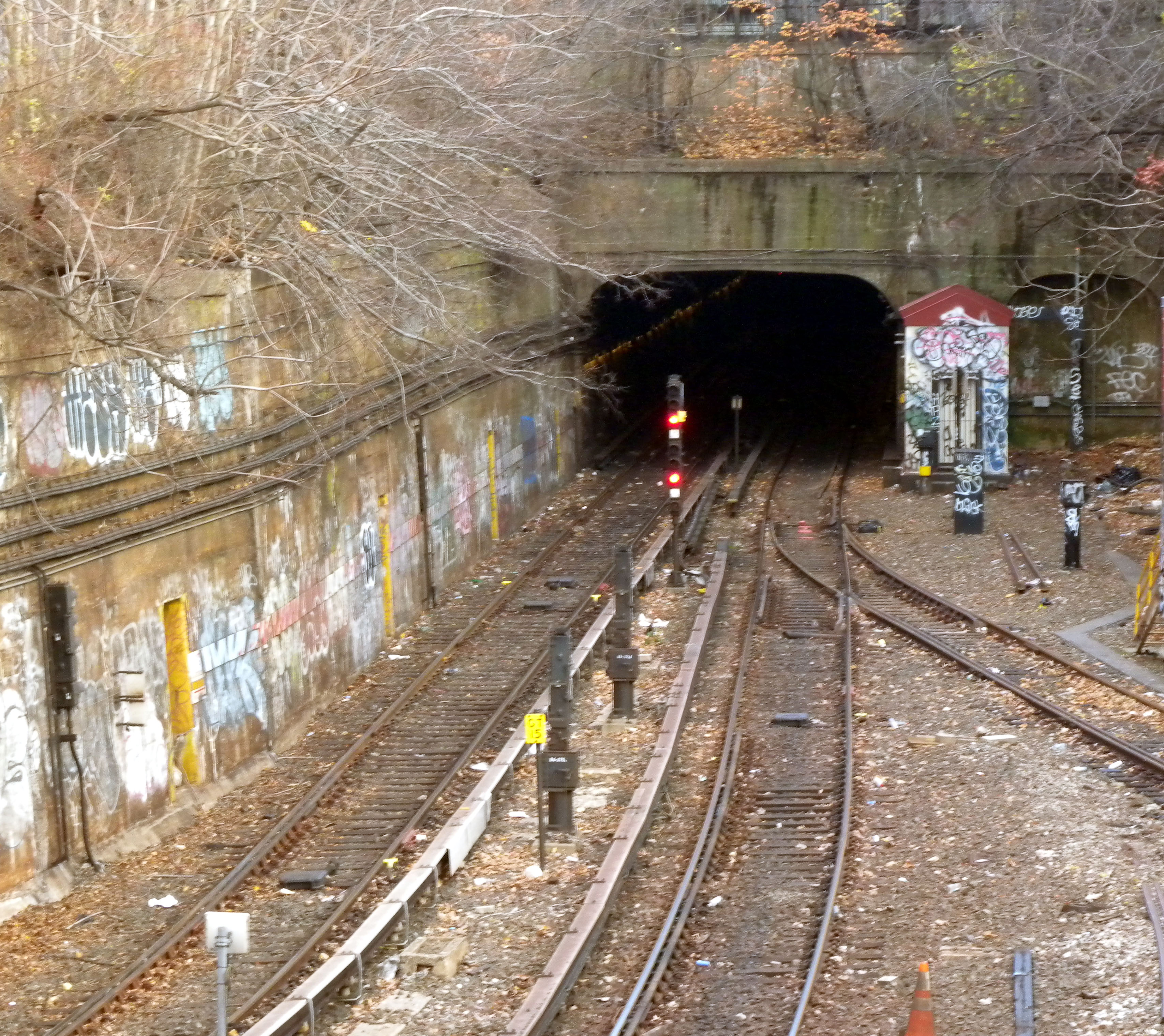 Looking southeast from 4th Avenue overpass at BMT tracks with wye whose left leg (seen on right) will pass underneath me towards SBK watefront yard, on a cloudy Thanksgiving afternoon. See also File:4 Av 38 D train jeh.JPG